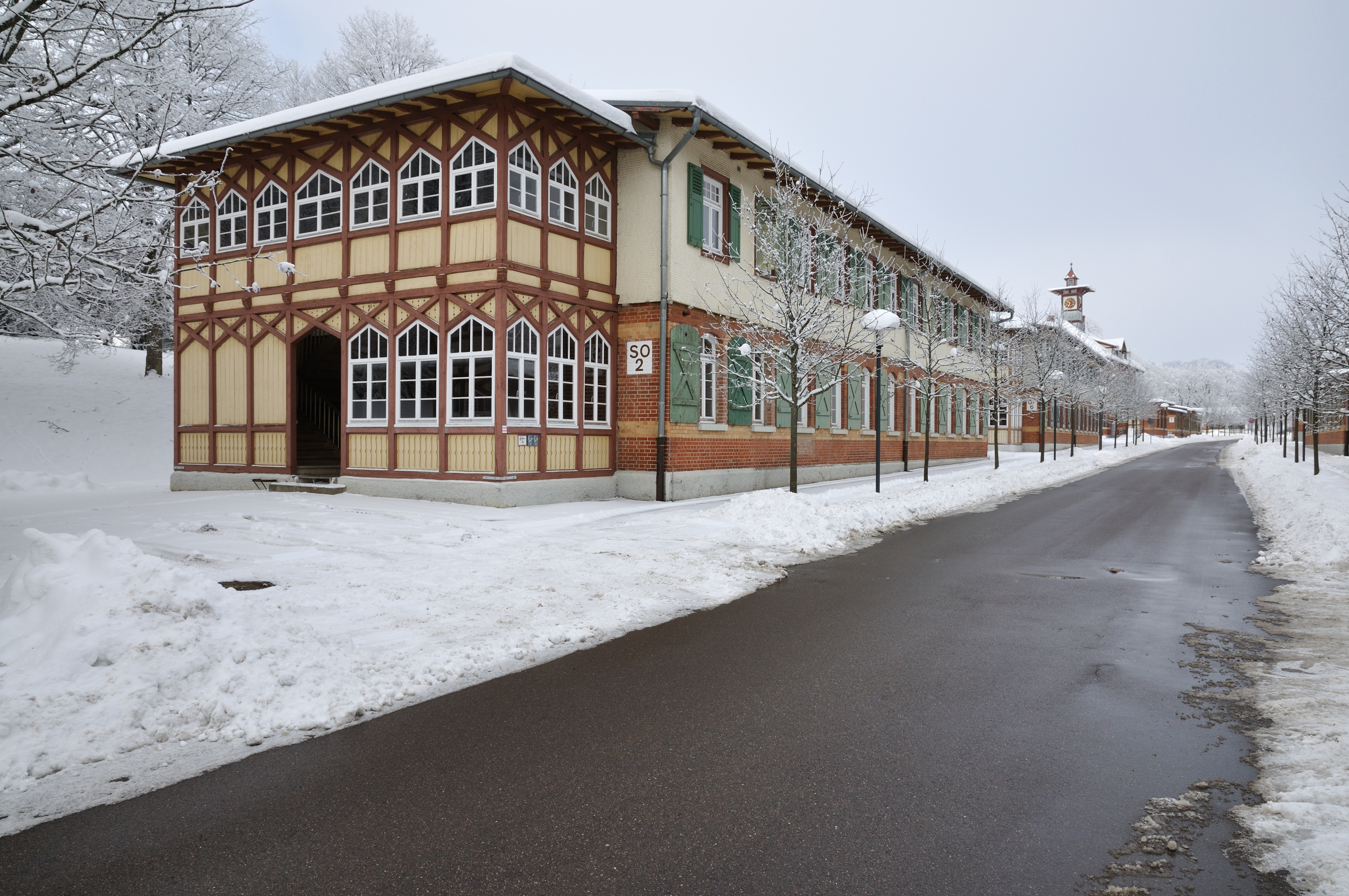 Building in the former barracks "Altes Lager", Münsingen, Germany